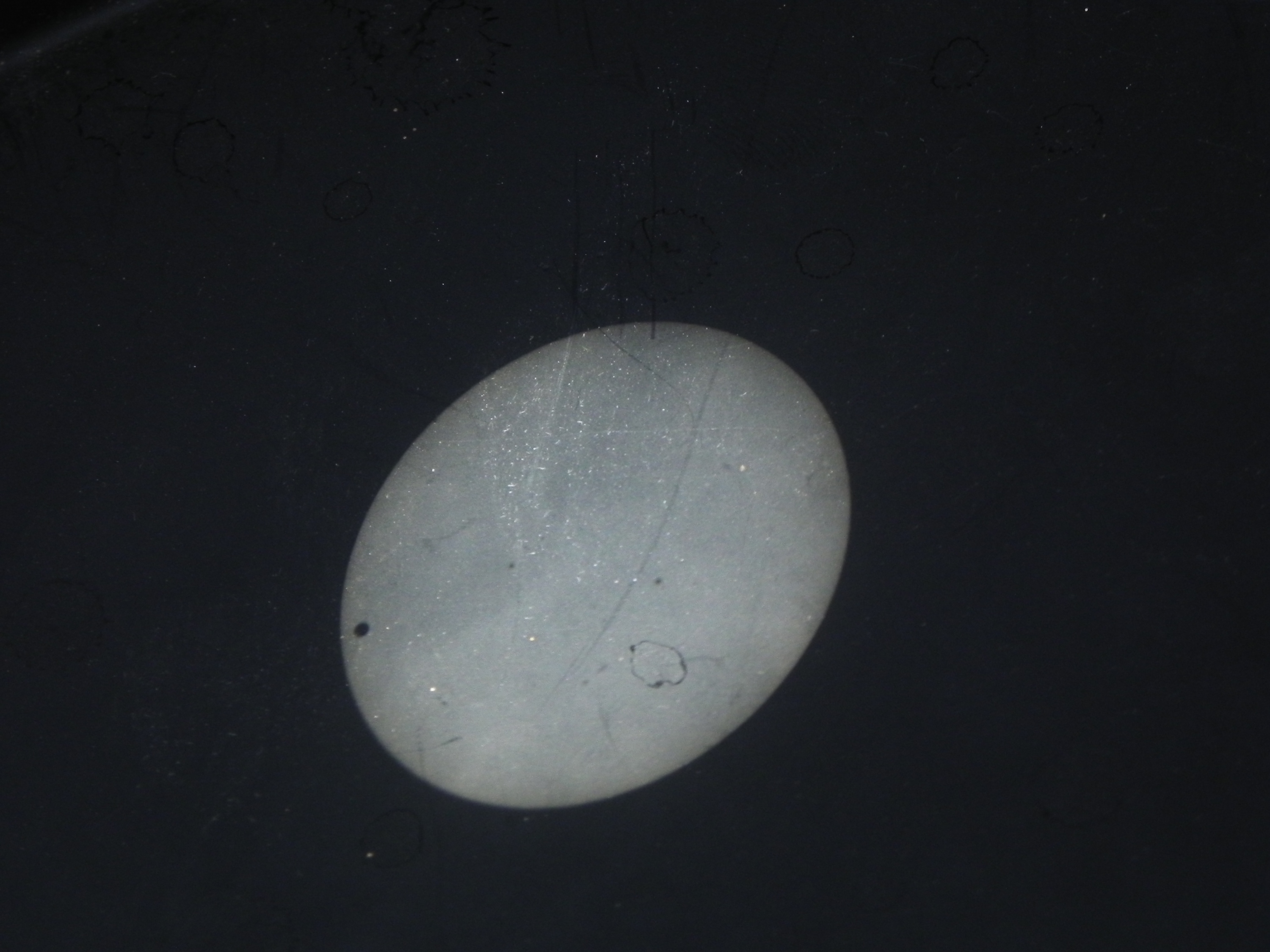 Transit of Venus, 2012 from Kottayam